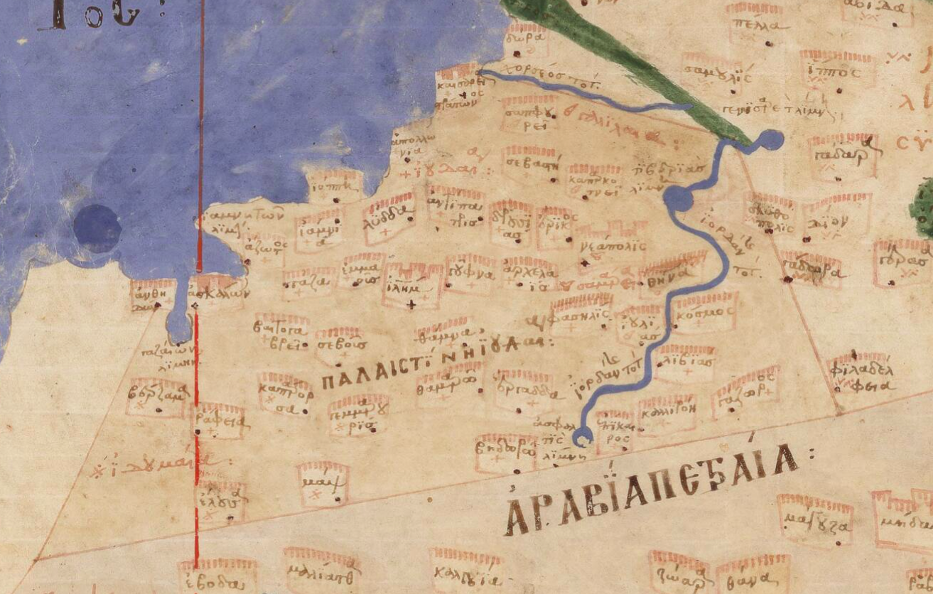 Oldest surviving Ptolemaic map of Palestine, from Ptolemy's fourth map of Asia